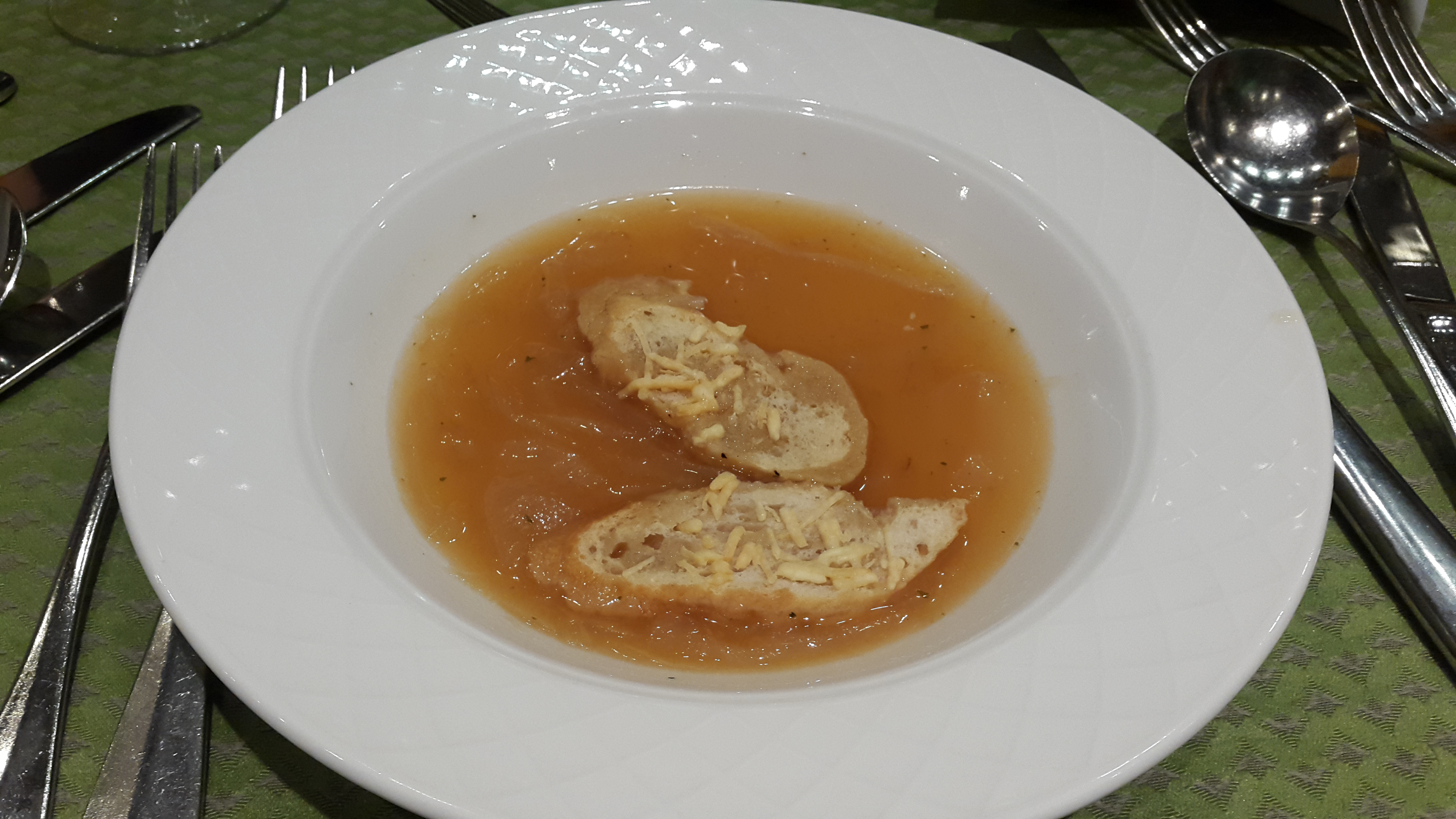 Onion Soup